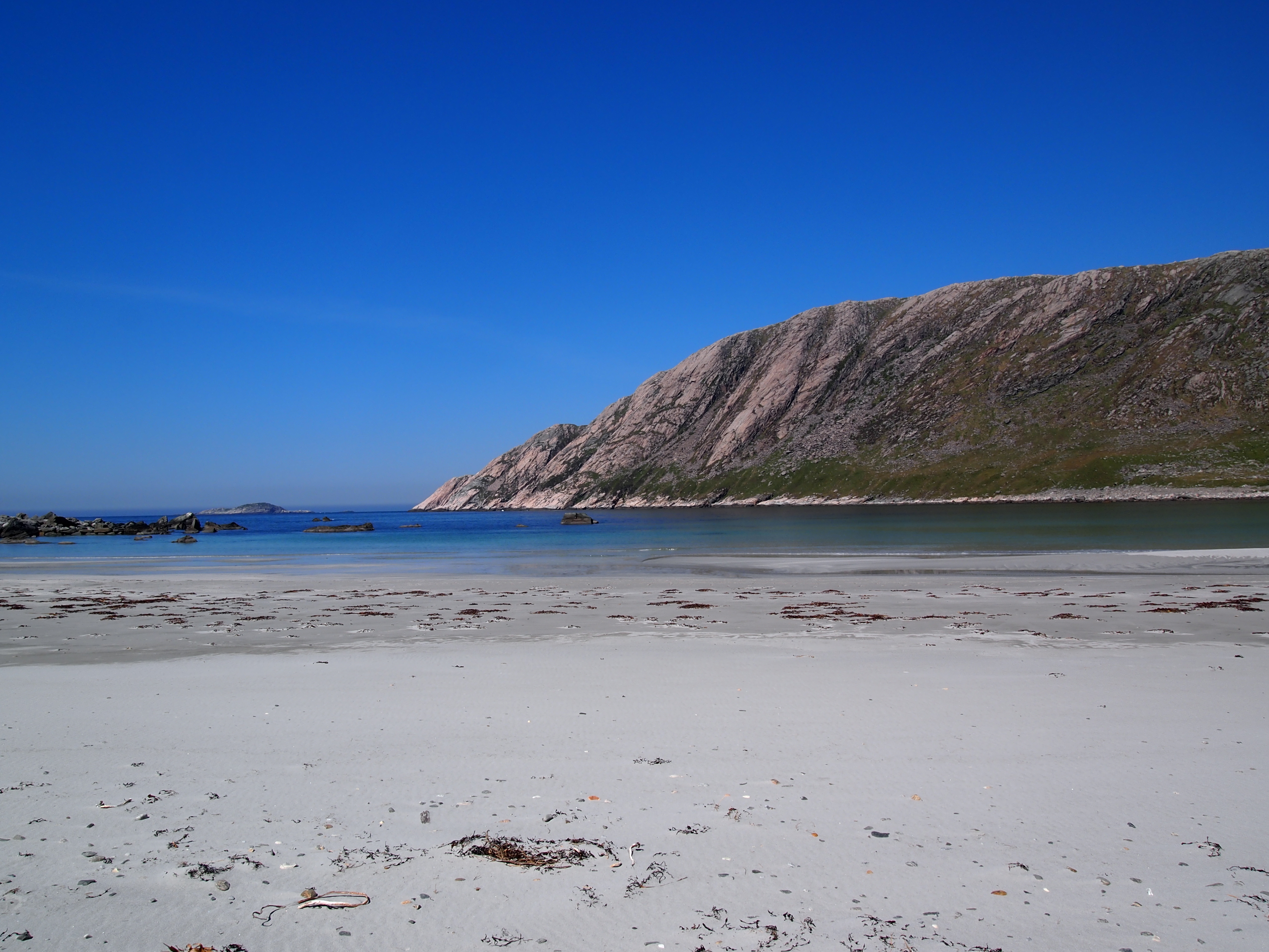 Vetvika beach, Bremanger, Norway